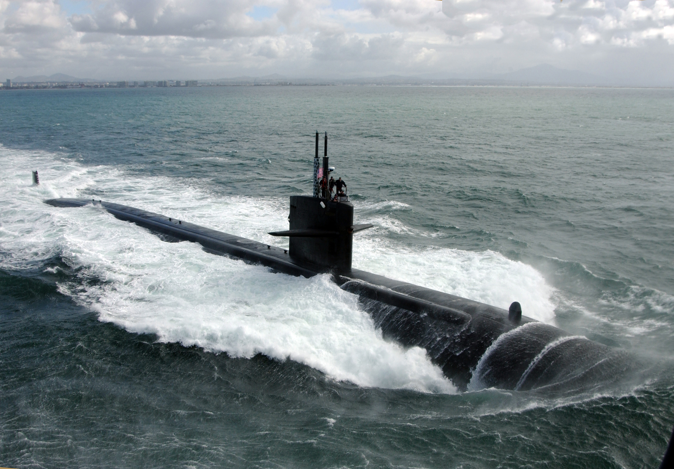 San Diego, Calif. (Mar. 23, 2005) - The Los Angeles-class fast attack submarine USS Salt Lake City (SSN 716) underway after departing Naval Submarine Base Point Loma, Calif., to conduct routine exercises in the Pacific Ocean. U.S. Navy photo by Photographer's Mate 3rd Class Danielle M. Sosa (RELEASED)